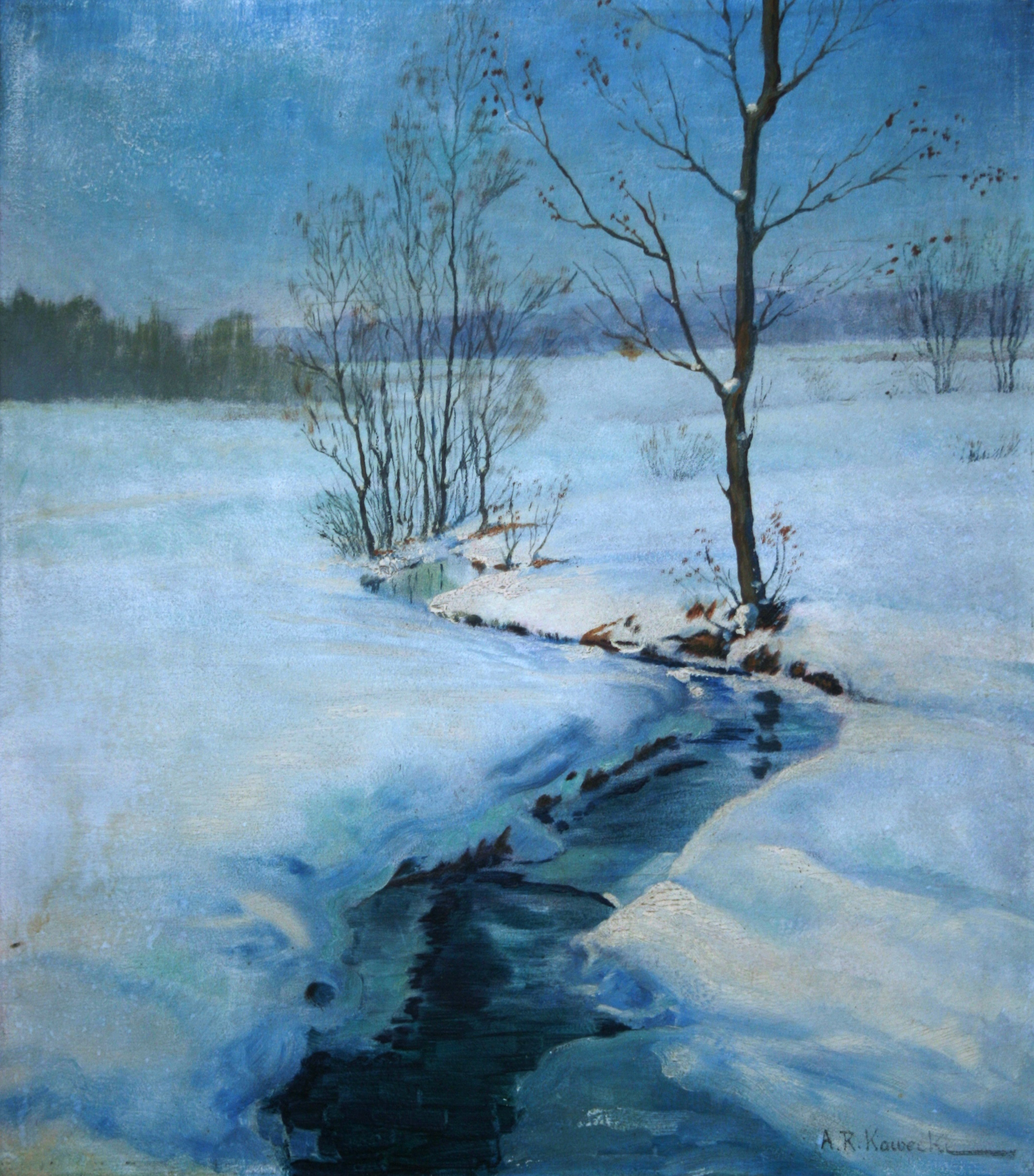 Roman Gozdawa-Kawecki - Stream, private collection